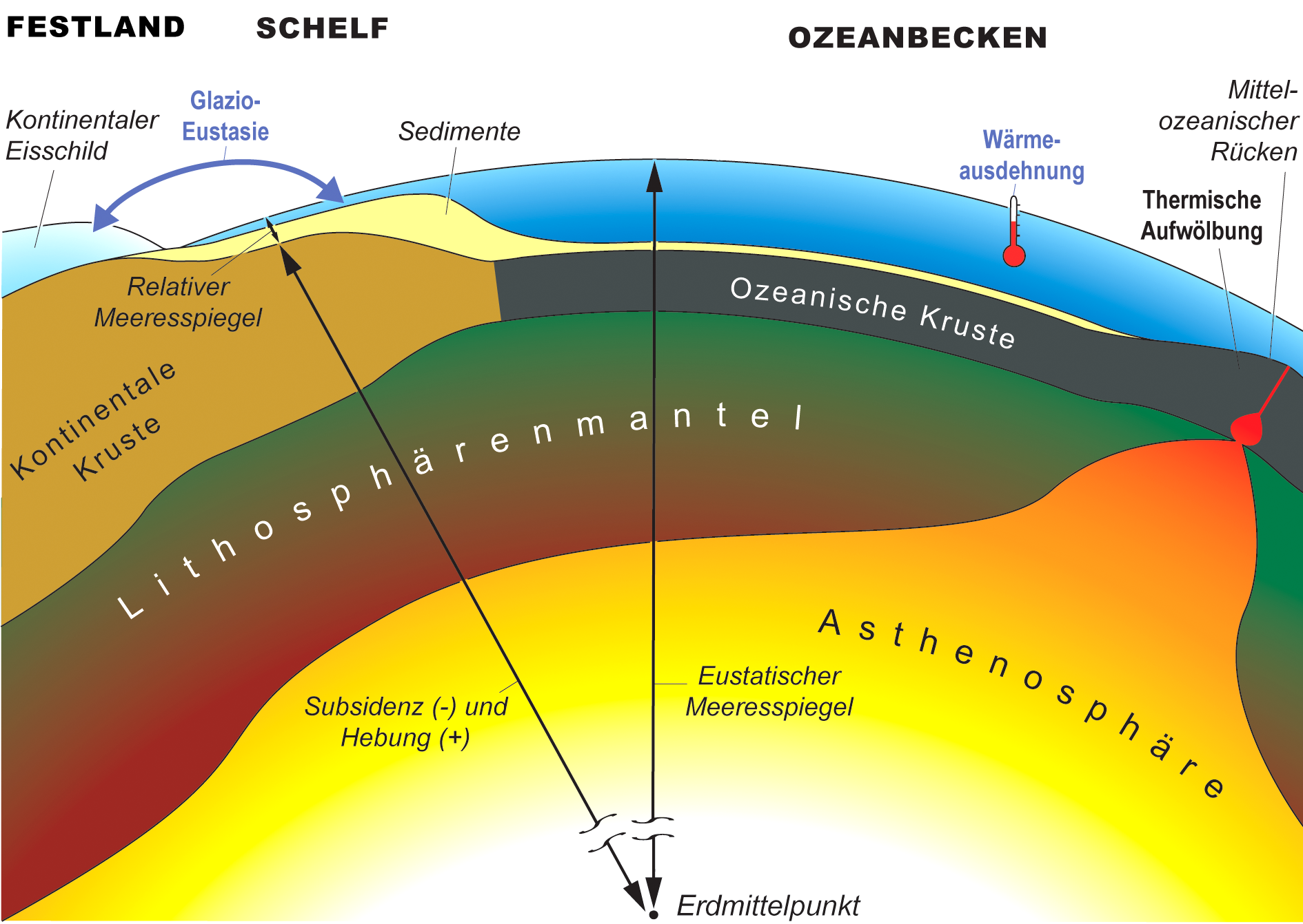 Definition and mechanisms of eustasy and eustatic sea level change, according to SEPM (2013)[1] and UGA Stratigraphy Lab (2008).[2]